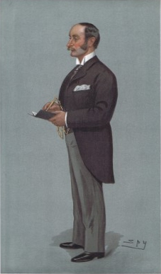 Caricature of Mr WH Fisher MP. Caption read "Fulham".